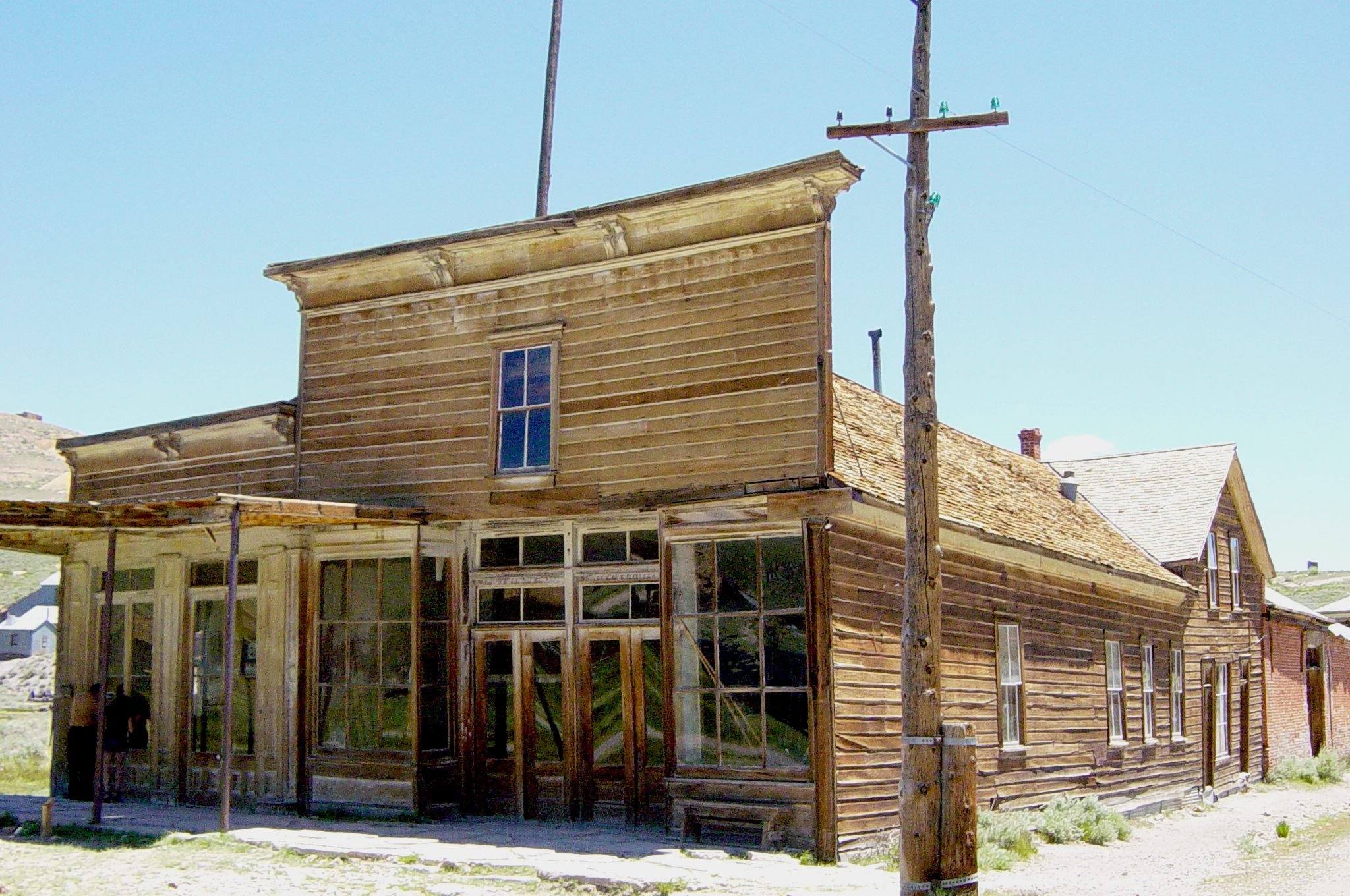 Photo taken in Bodie, California. See file name.